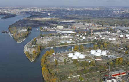 Csepel Szabadkikötő, Budapest, district XXI, Hungary, aerial photography, port